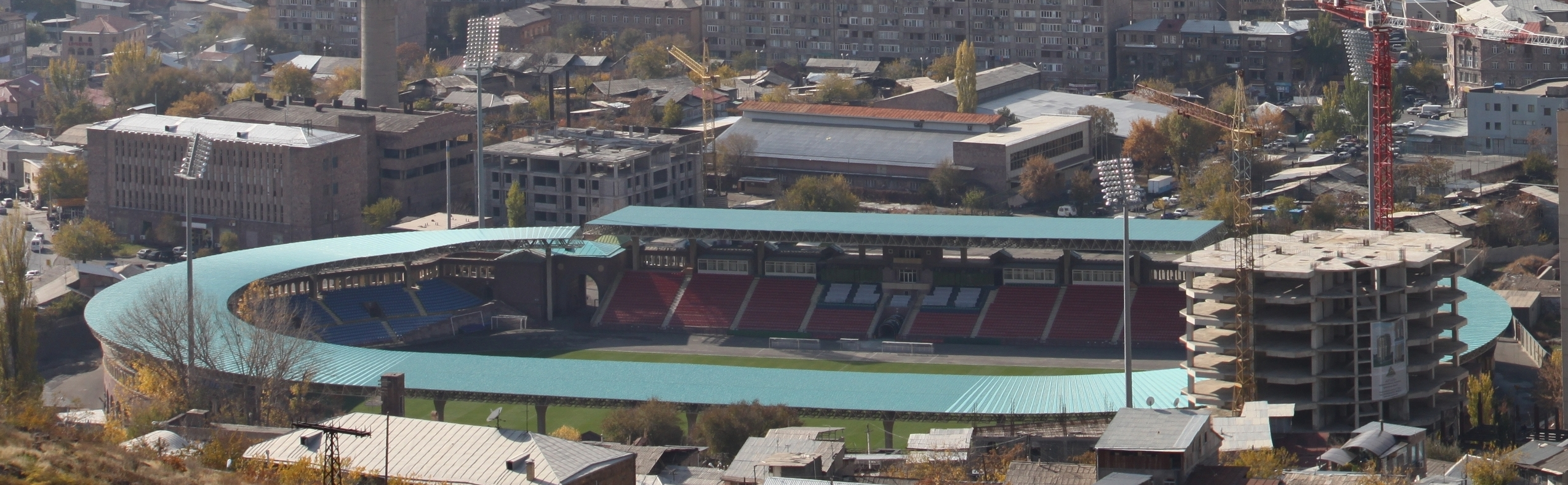 source: File:Երեւանի համայնապատկեր Նորք-Մարաշէն դիտուած.jpg